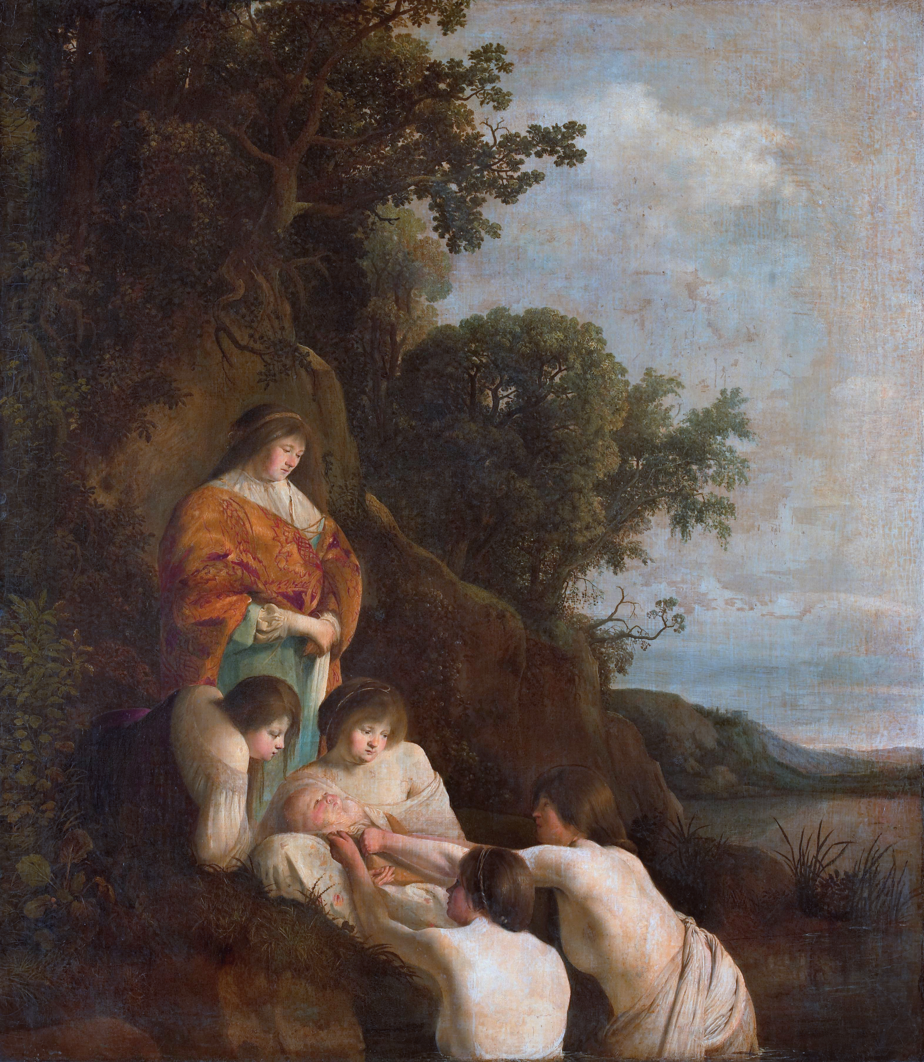 The pharao's daughter finds Mozes oil on canvas 131,5 × 114,5 cm circa 1635 - circa 1638